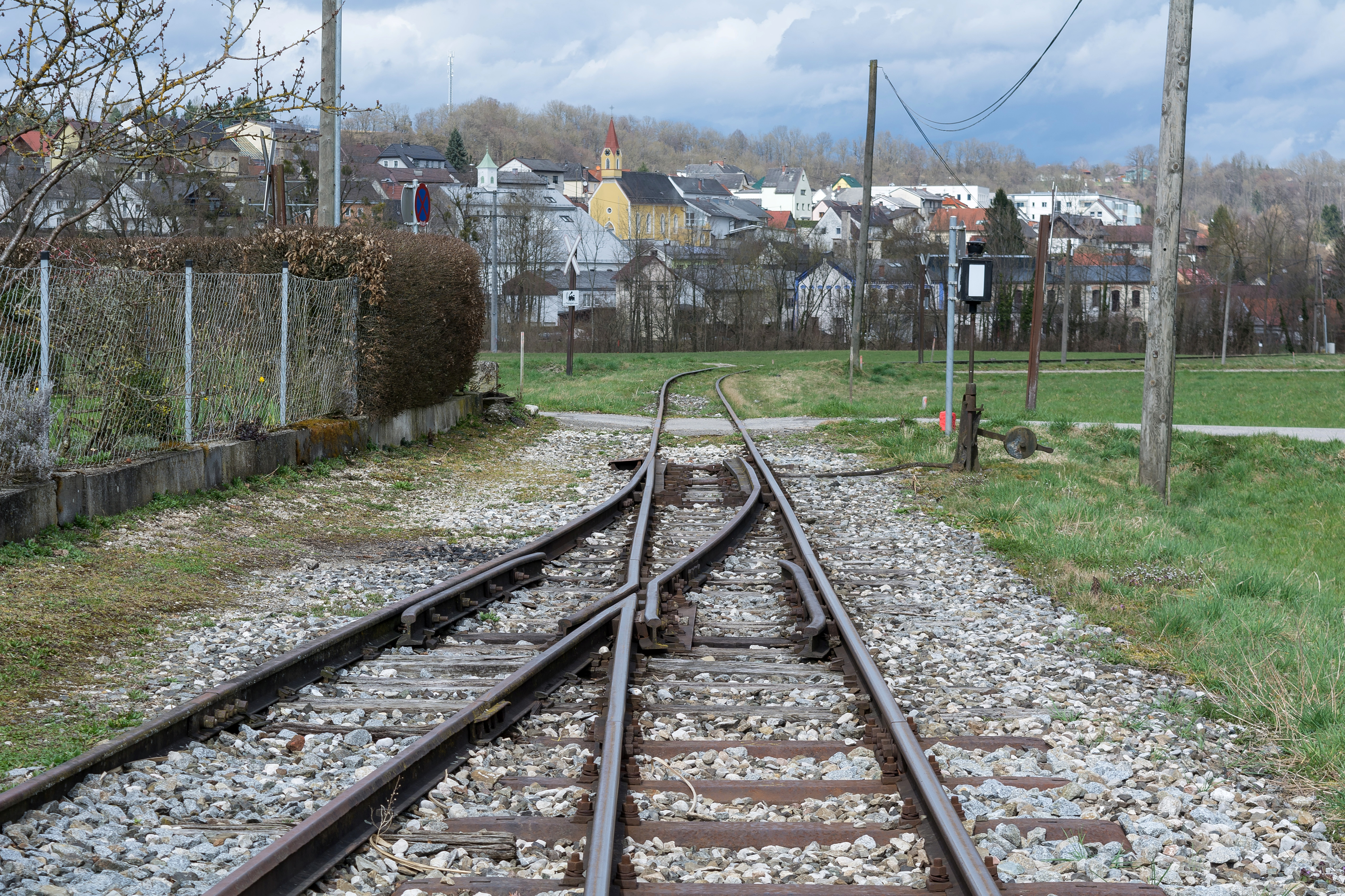 The points at the north end (direction Steyr) of the former train station Neuzeug of Steyr Valley Railway are operated manually. The last section of this narrow-gauge line was finally closed in 1982. Since 1985 the Austrian Society for Railway History runs this line in summer on weekends as museum railway with Steam locomotives.